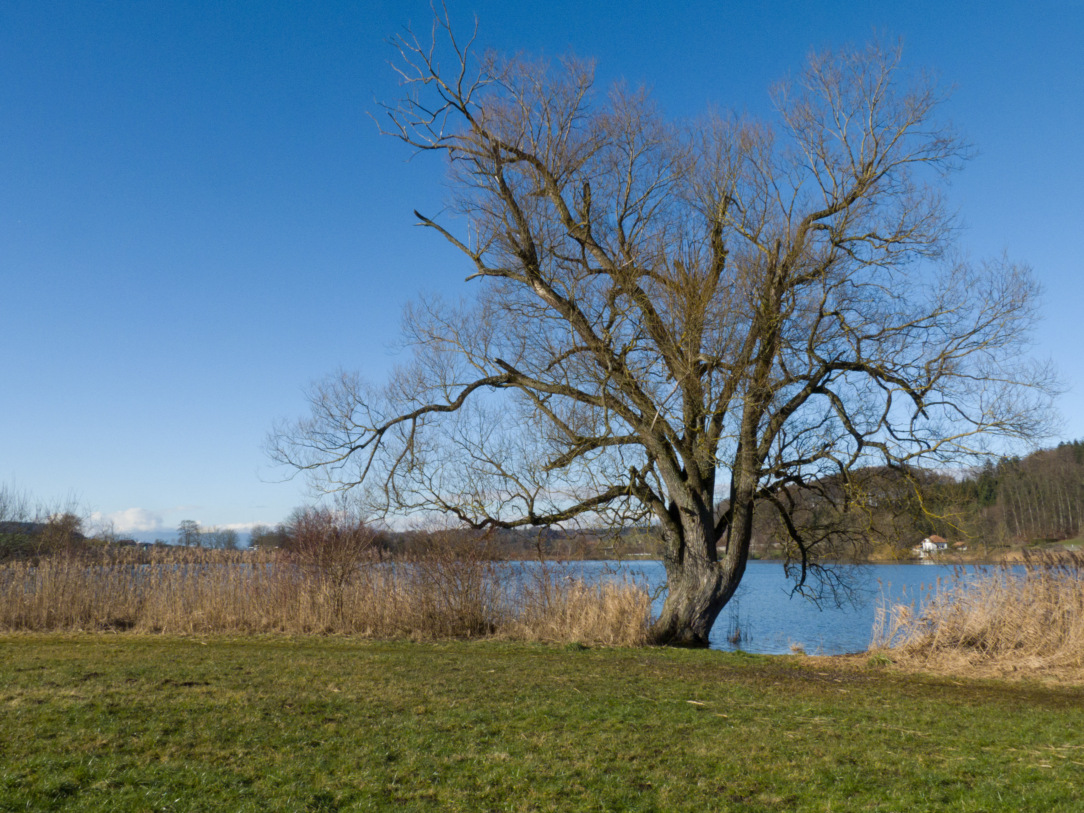 Alte Weide am Moossee